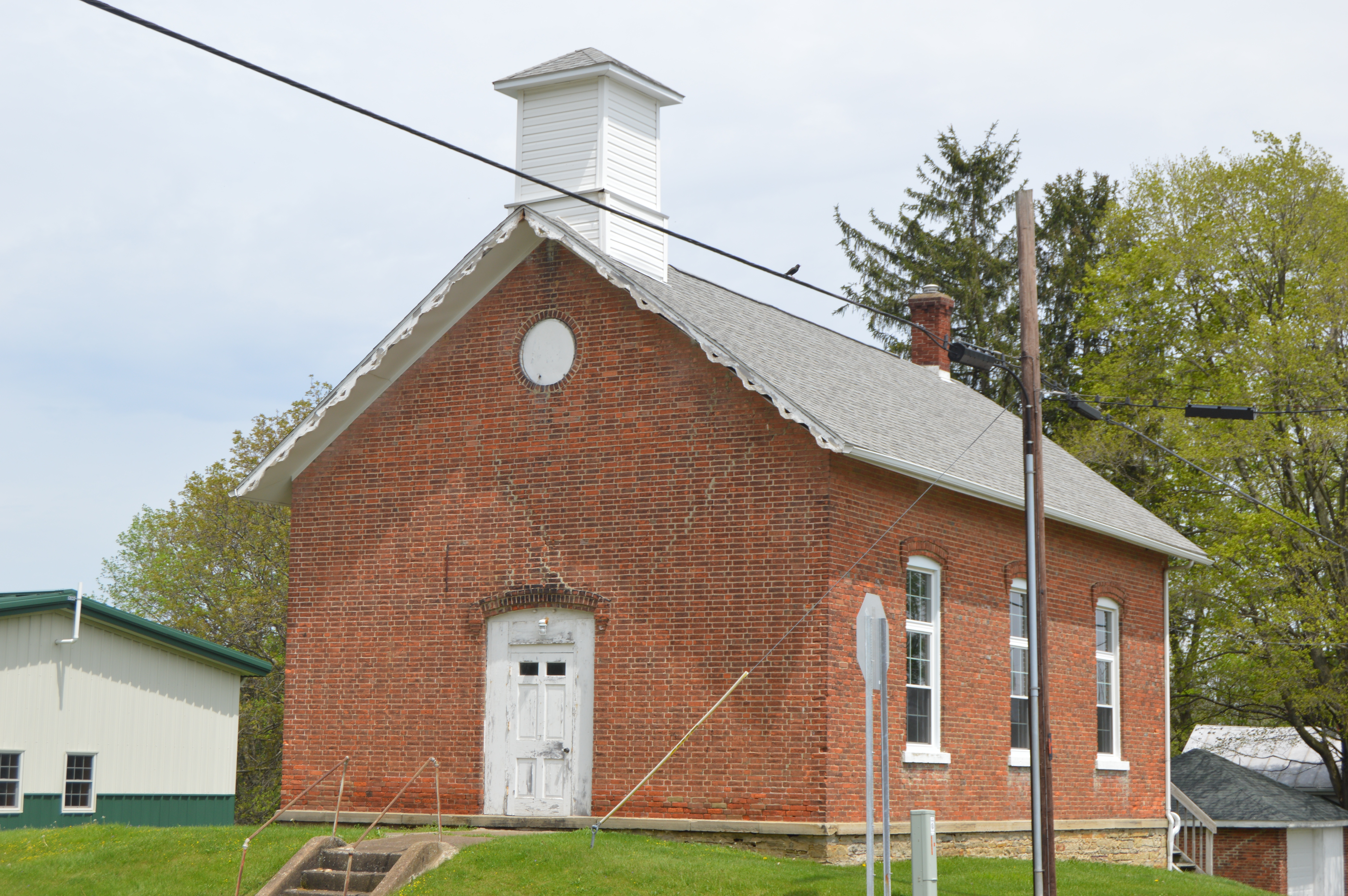 Front and southern side of the Greenfield Township hall, located along State Route 162 and Peru Center Road at Steuben in Greenfield Township, Huron County, Ohio, United States.